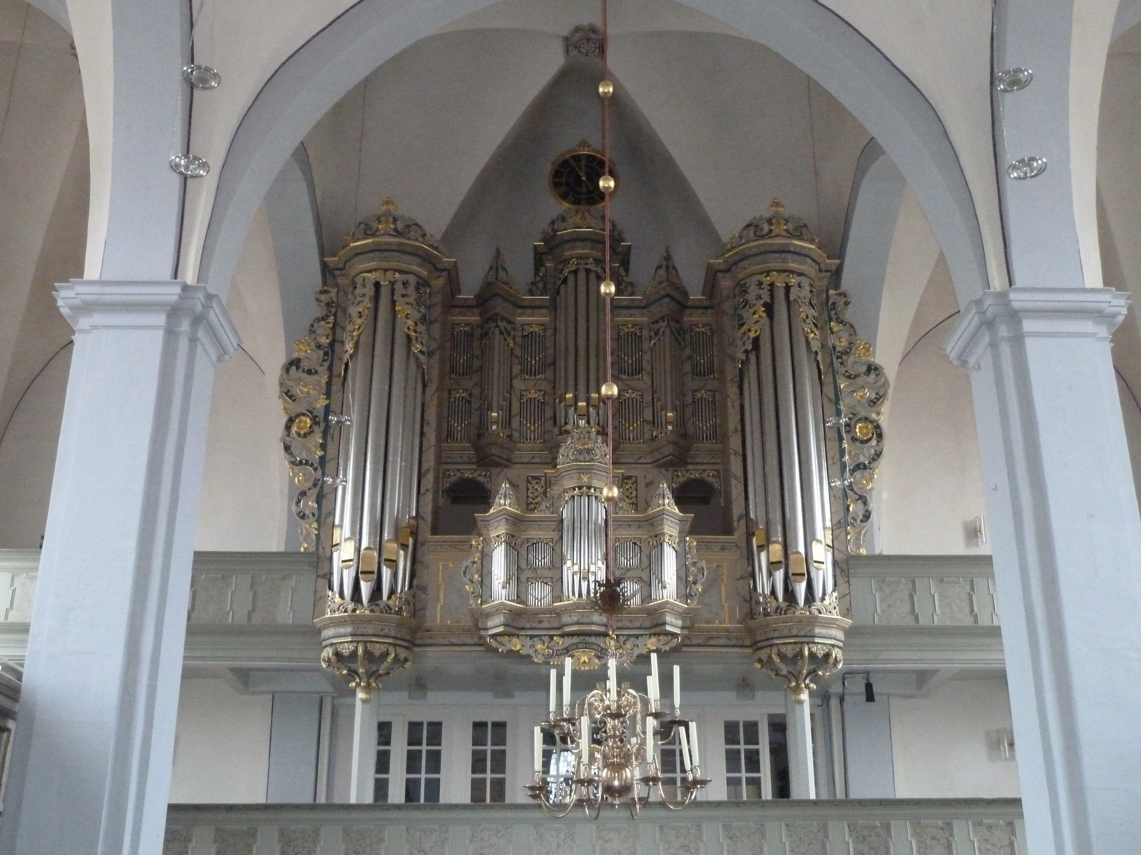 own file